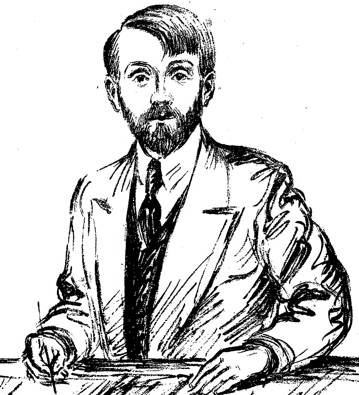 Guilbeaux devant le conseil de guerre. In "Revue des causes célèbres", 1919. Dessin de Noël Dorville.